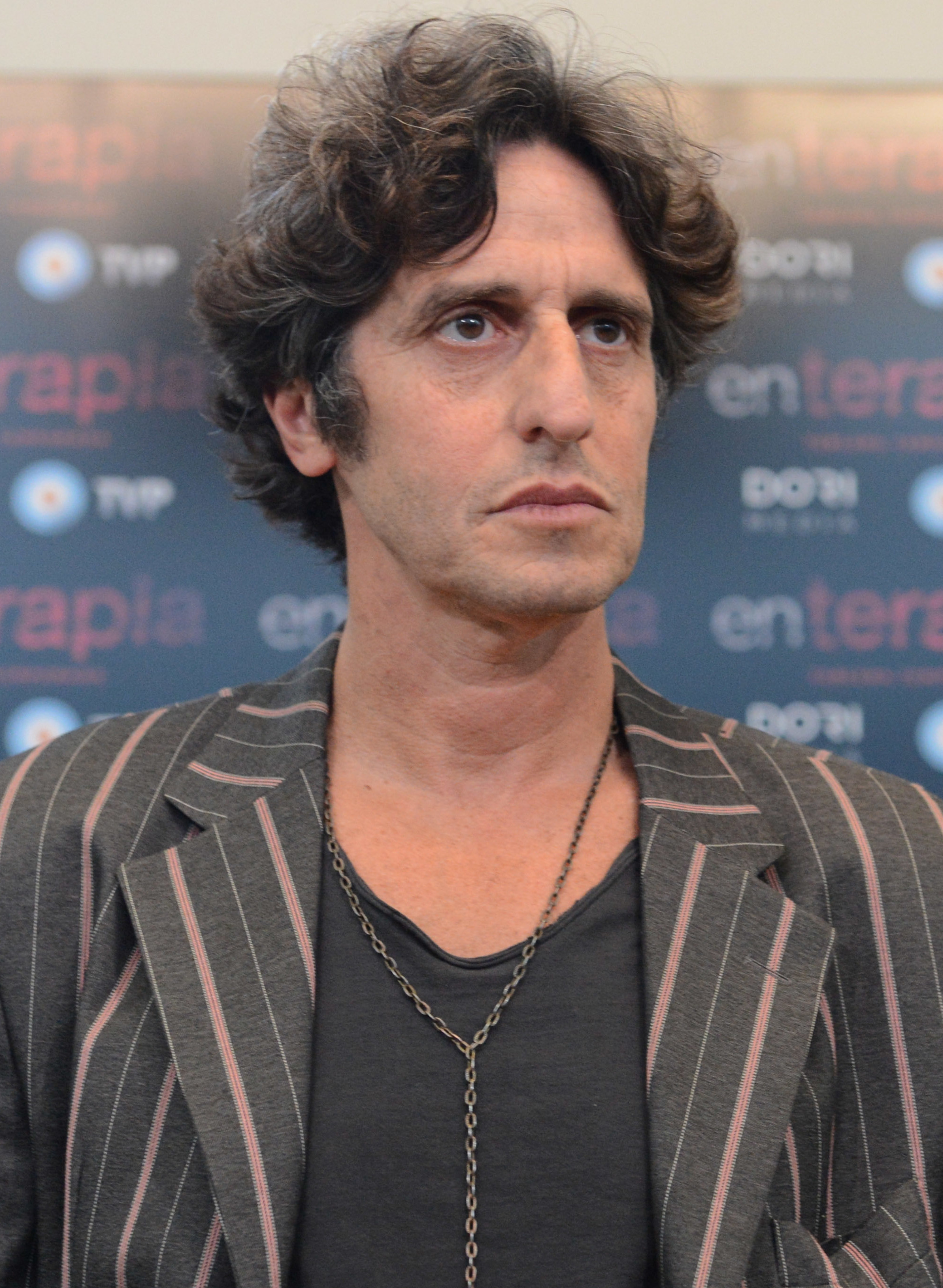 Diego Peretti y Cecilia Roth. Presentación En terapia 3ra temporada. 20.10.2014. Foto TVP 2014